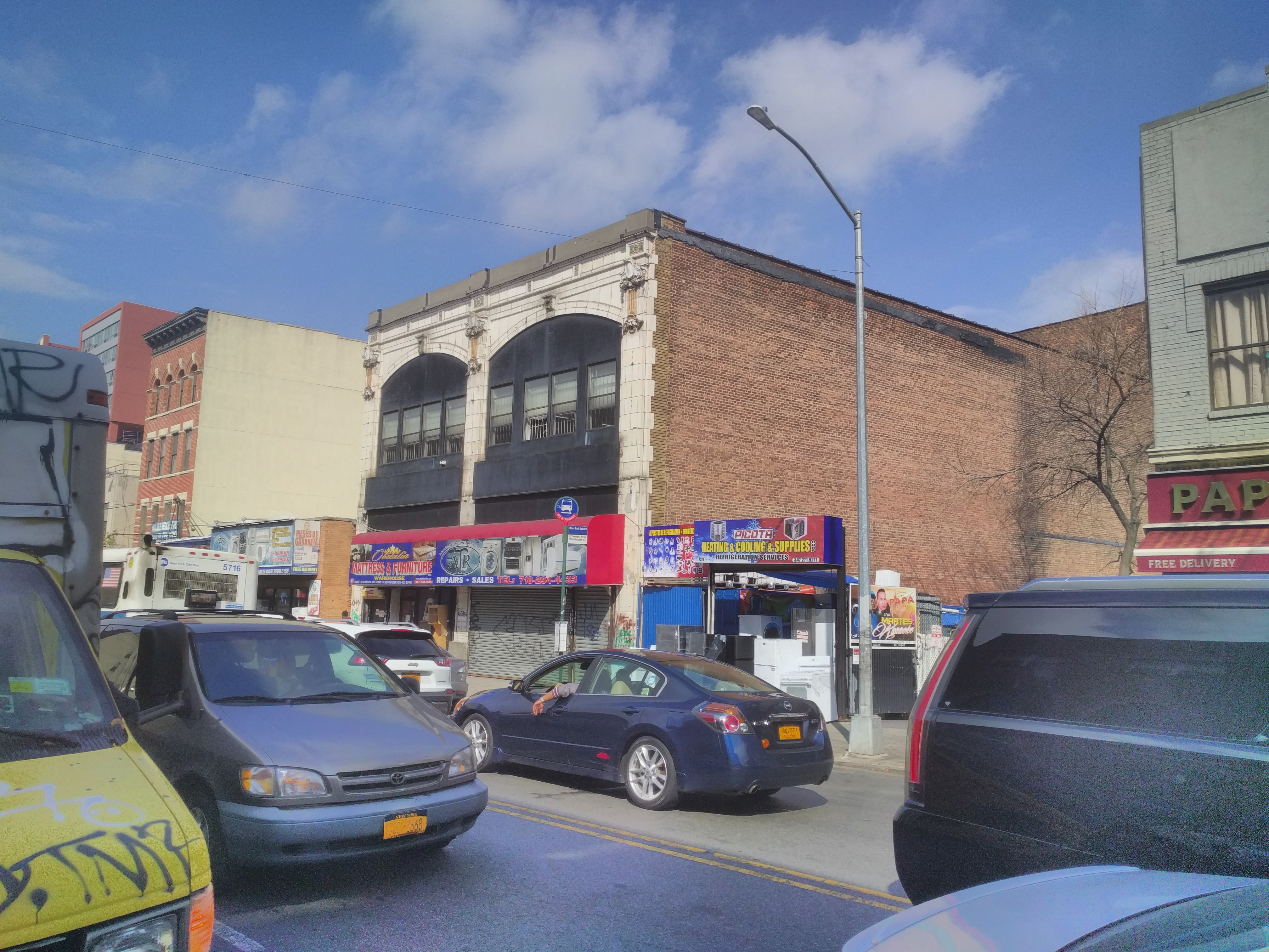 Looking northwest across East Tremont Avenue